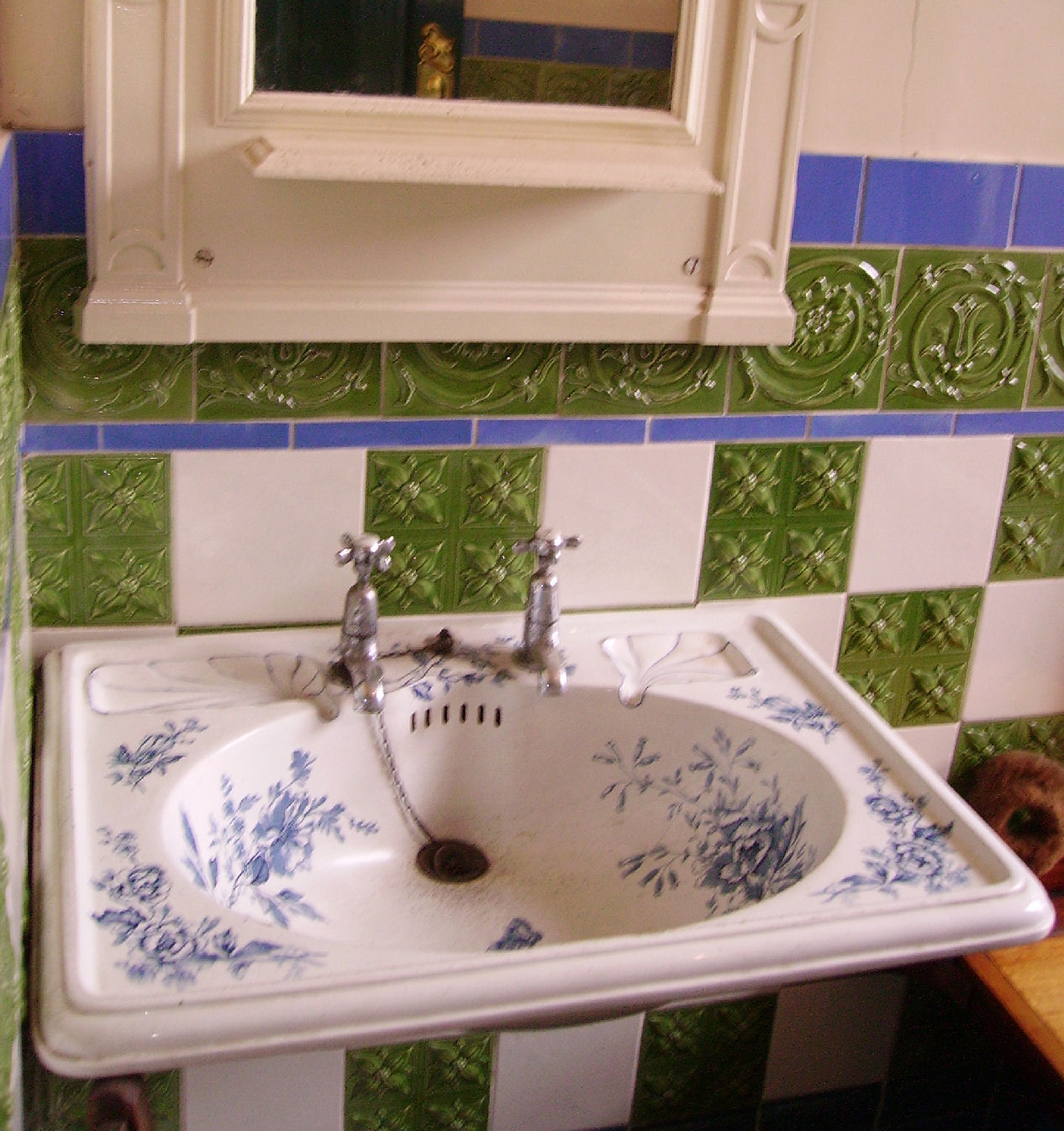 Beamish Museum, County Durham, England. This is the bathroom of No. 3 Ravensworth Terrace, on the north side of the main street in Town. It's the residence of J. Jones the dentist - his practice is next door at No.4.